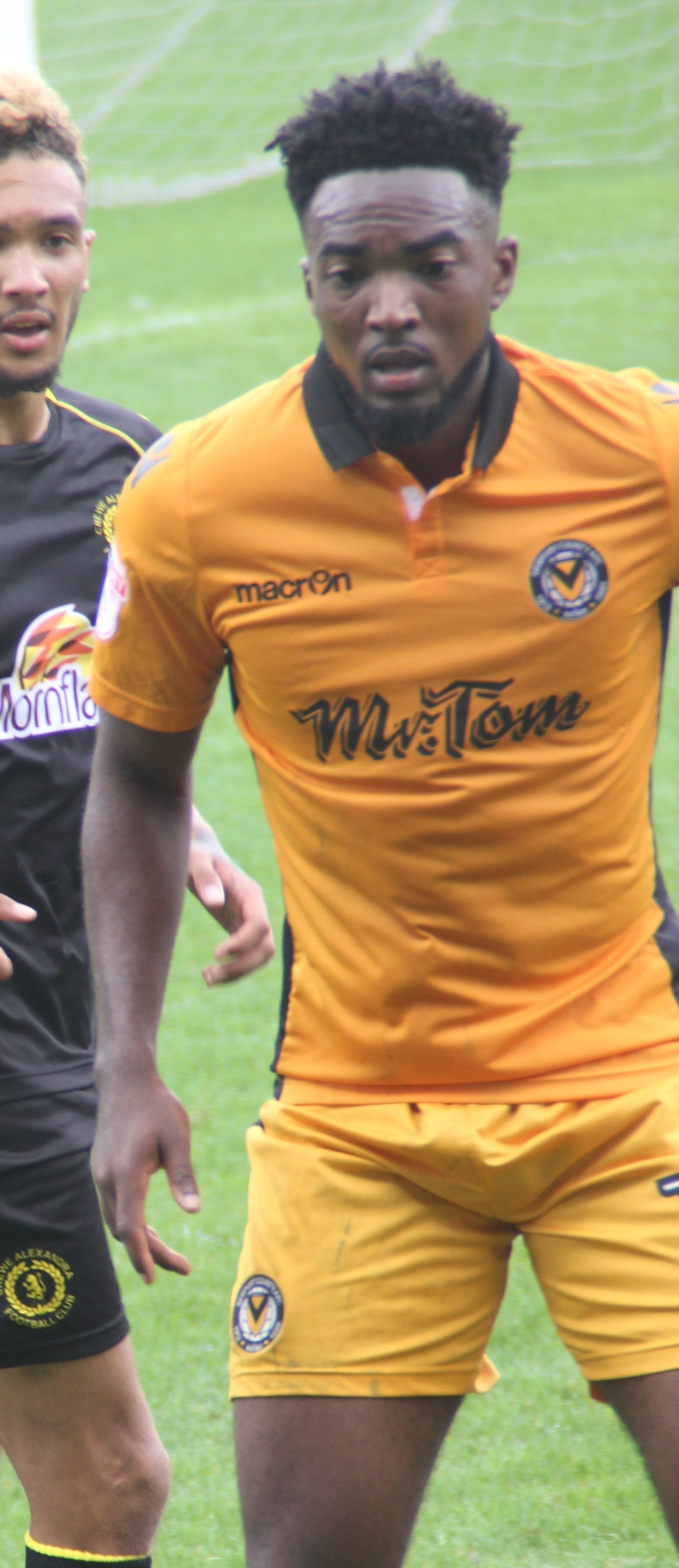 Marlon Jackson playing for Newport County against Crewe Alexandra at Rodney Parade, Newport on 20 August 2016